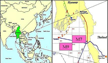 Map of Myanmar Martaban Gulf